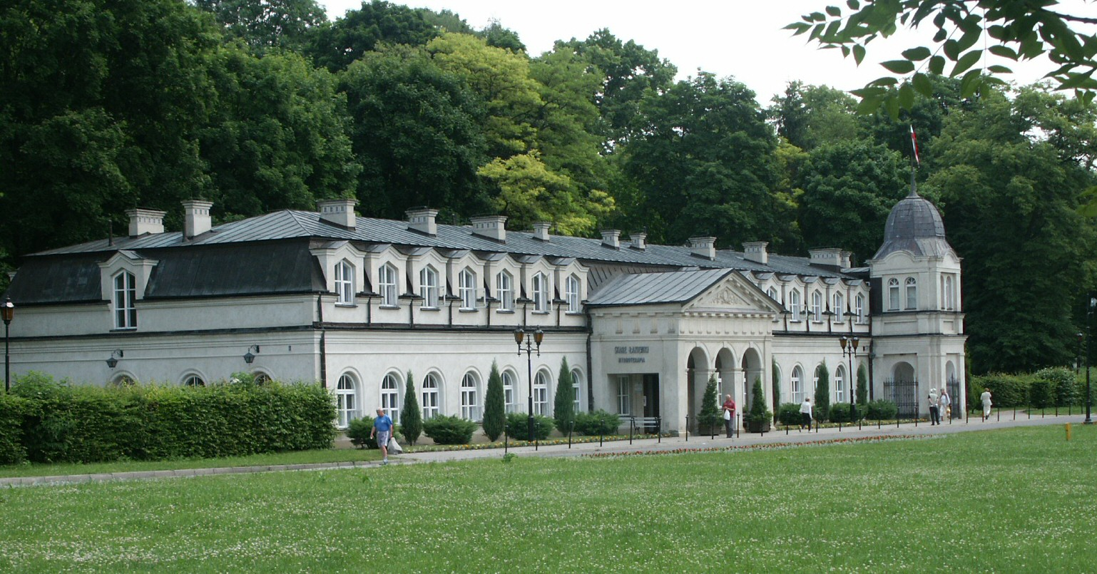 Nałęczów, Poland - old spa baths.